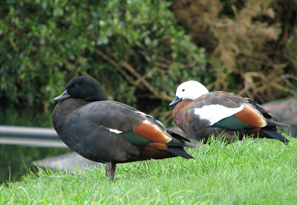 Male (black) and female (white) Tadorna variegata, Paradise Shellduck, Pūtangitangi. Native to New Zealand. At the Karori Wildlife Sanctuary, Wellington New Zealand. (See also Karori Wildlife Sanctuary). I hope to do better on a brighter day. It's tough photographing the pair - hard to balance black versus white. img_4947.jpg: DateTime: 2006:05:13 11:25:19 ExposureTime: 1/40 ApertureValue: f/3.6 ExposureBiasValue: -1/3 ISO: 100 ExposureMode: Av-priority FocalLength: 432mm (35mm equiv.) SubjectDistance: 10.77m Had to play with the levels to try and reveal some detail on the male's dark head. Reduced to 1024x768 with a small amount of USM.